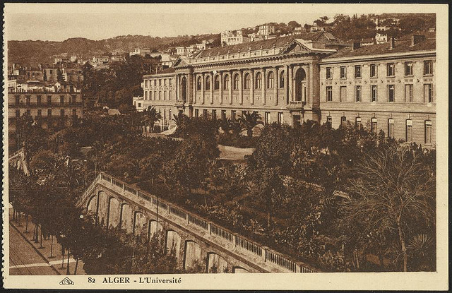 Postcard of Algiers, early 20th century Creator: CAP Date: early 20th century Accession number: ZPC2 A1A4 Featured in the exhibition, Walls of Algiers: Narratives of the City, May 19 - October 18, 2009 at the Getty Research Institute. Part of the Cities and Sites Postcard collection in the Getty Research Institute Library's special collections. View the library record for this collection.